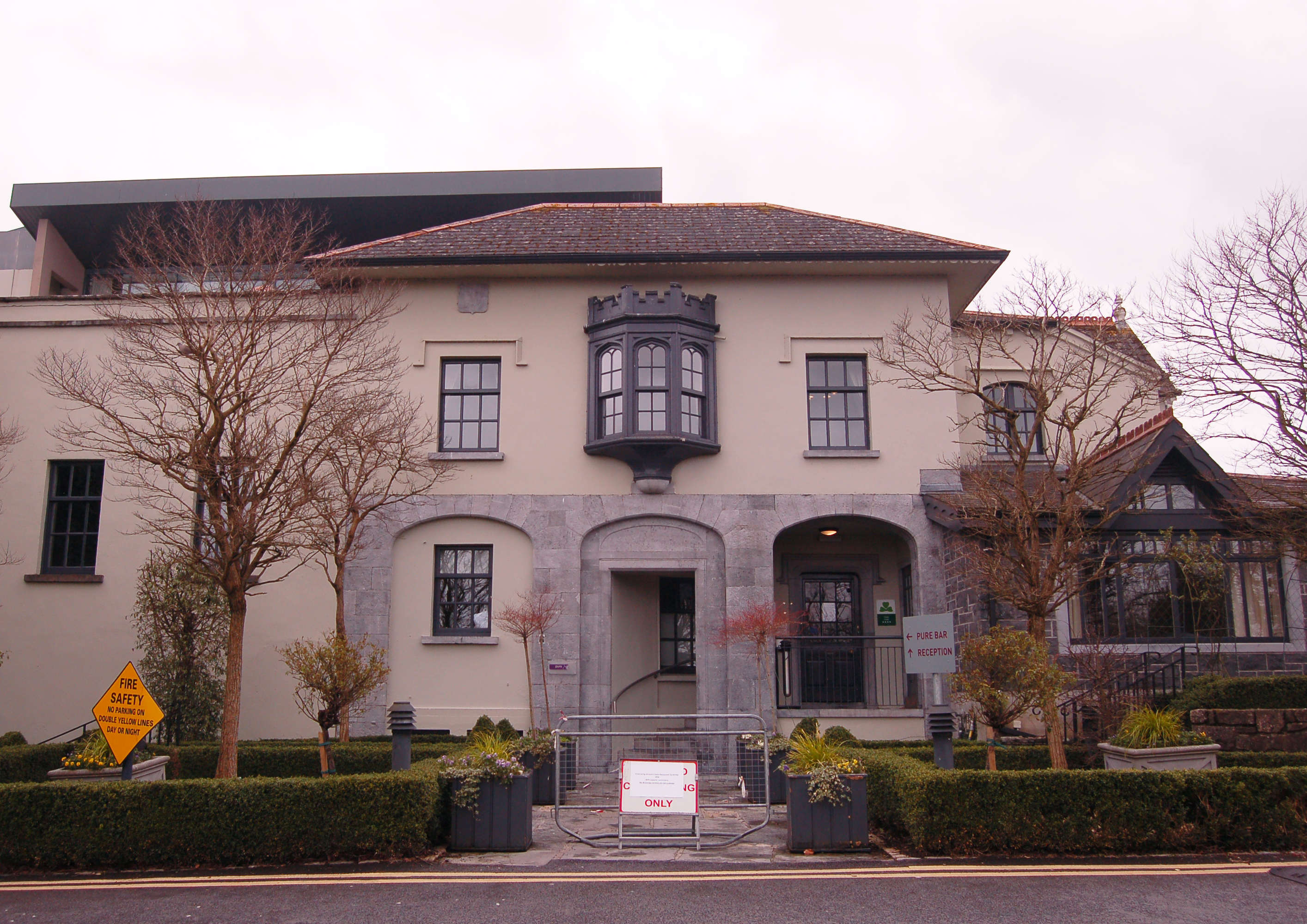 Rosehill House was designed and built by William Robertson in 1830. He lived there until his death in 1850.